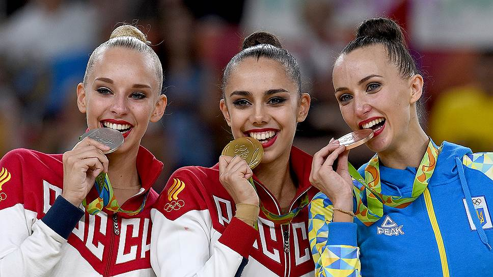 Rhythmic Gymnastics at the 2016 Olympic Games, gold medalist Magarita Mamun, silver medalist Yana Kudryavtseva and bronze medalist Ganna Rizatdinova